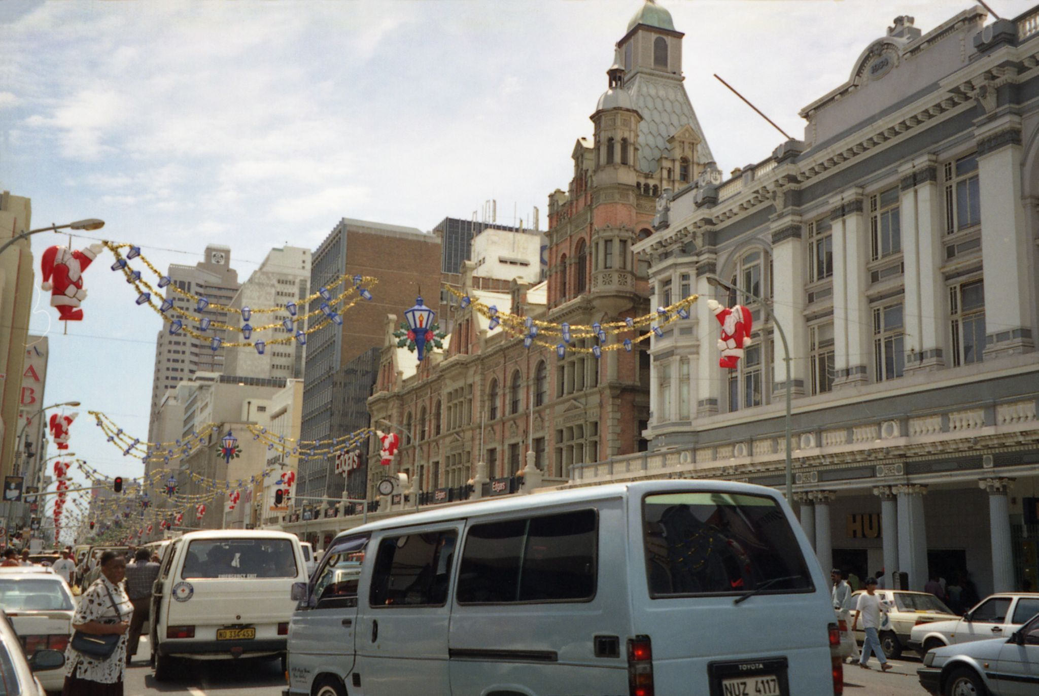 Durban City with Christmas Decoration